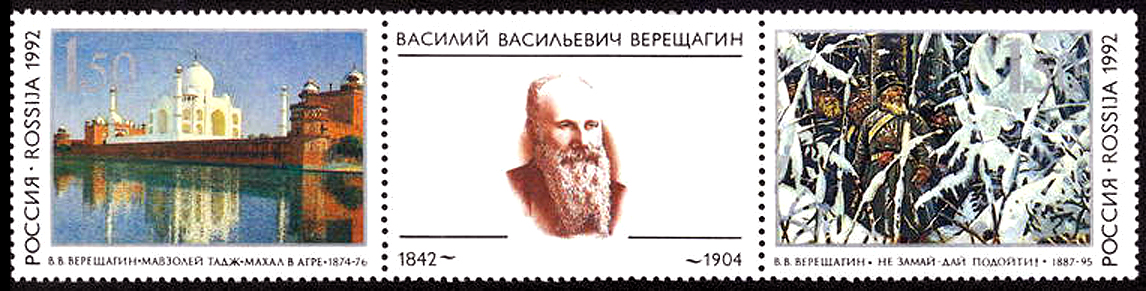 Russia stamps, Painters (begining of series). The 150th birth anniversary of V.V. Vereshchagin (1842-1904), 1992, 1.50 + 1.50 r.